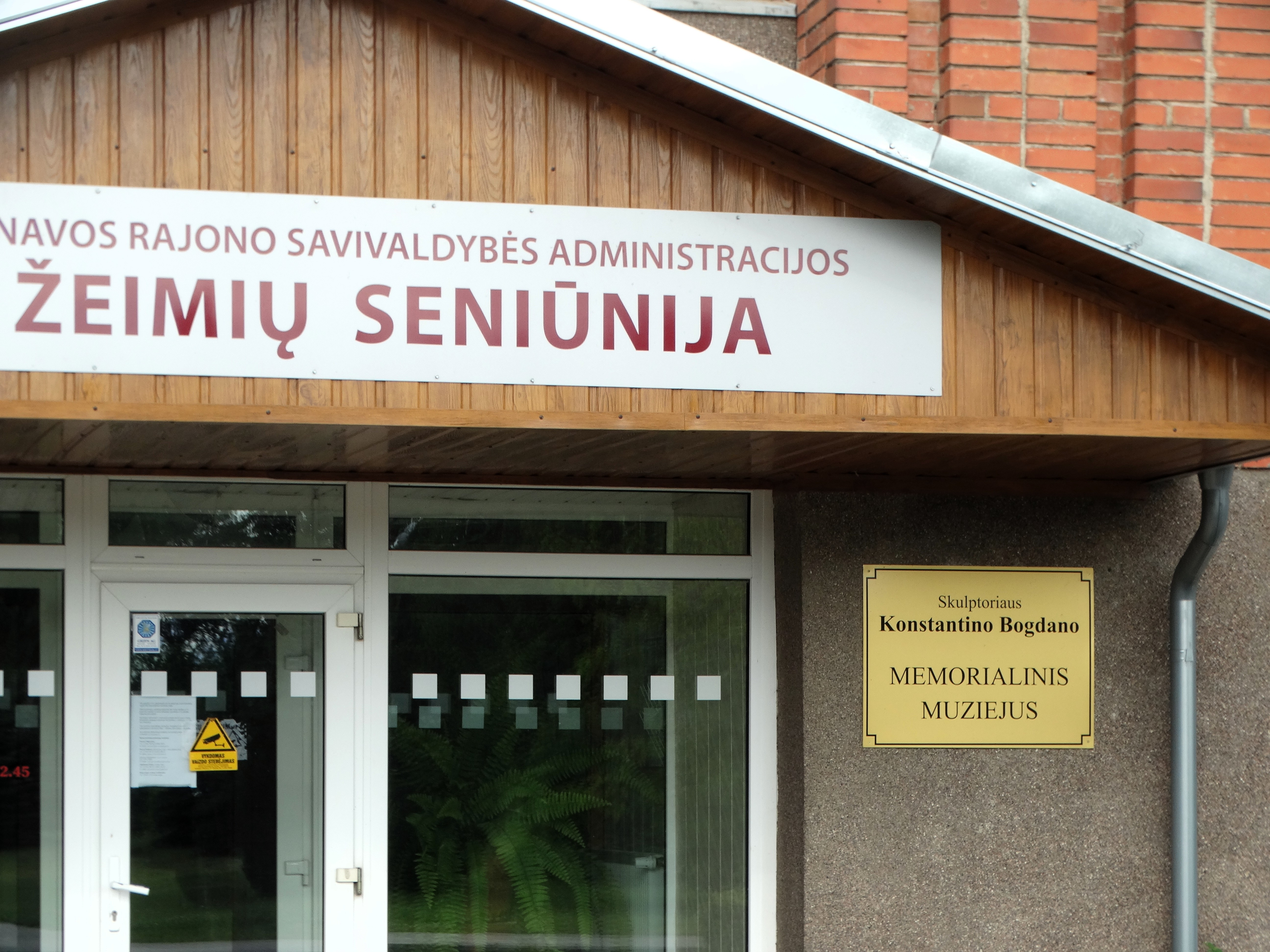 Žeimiai, eldership, Jonava district, Lithuania